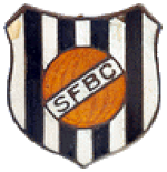 First logo of the Santos FC of Brazil.